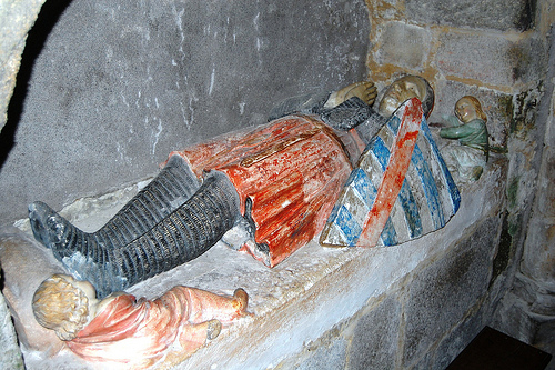 gisant of Parthenay Larcheveque Guillaume VII